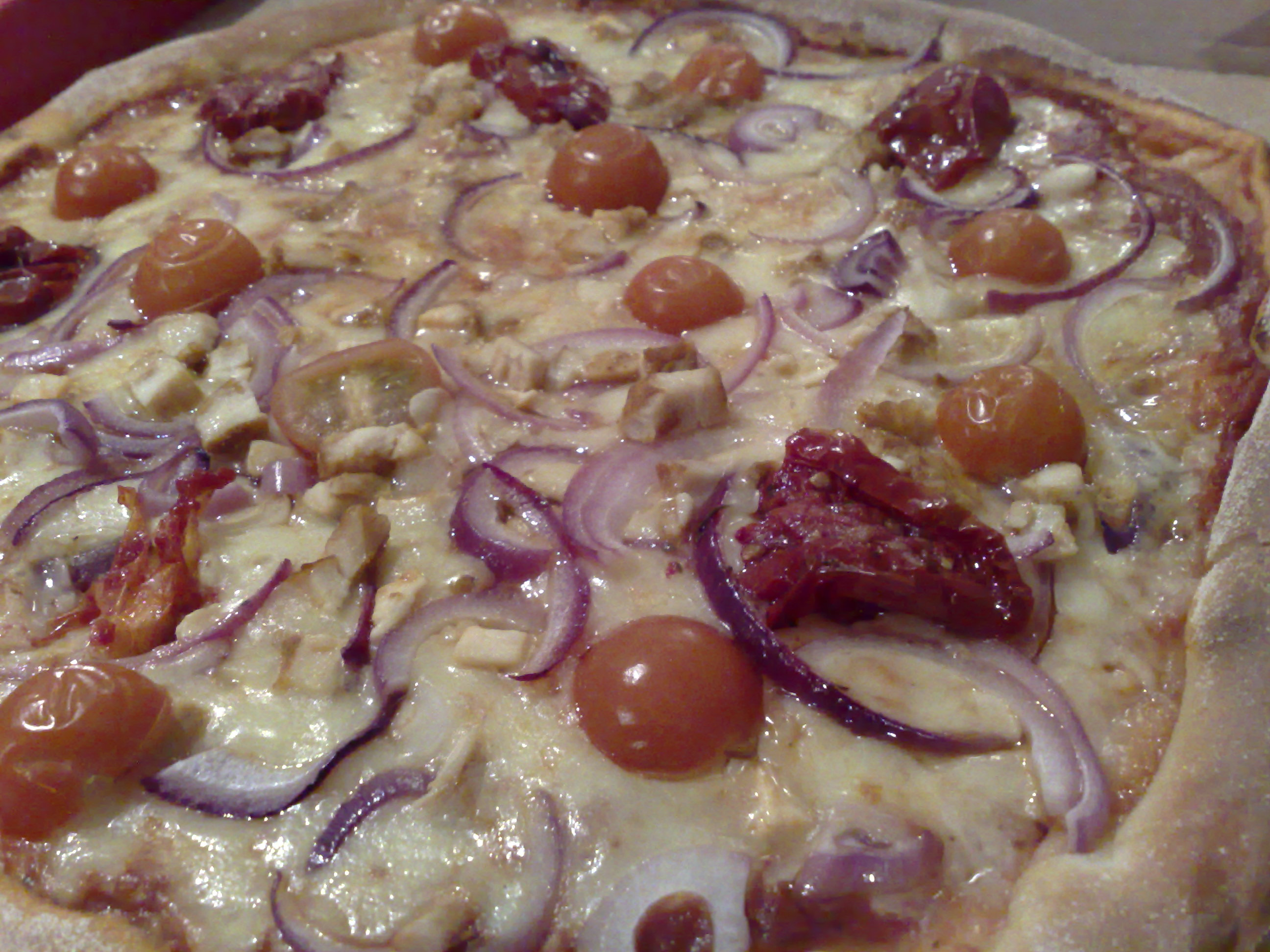 Extra cheese, cherry tomatoes, sundried tomatoes, red onion and chicken, from Kotipizza - Taken at 9:58 PM on October 24, 2007 - cameraphone upload by ShoZu